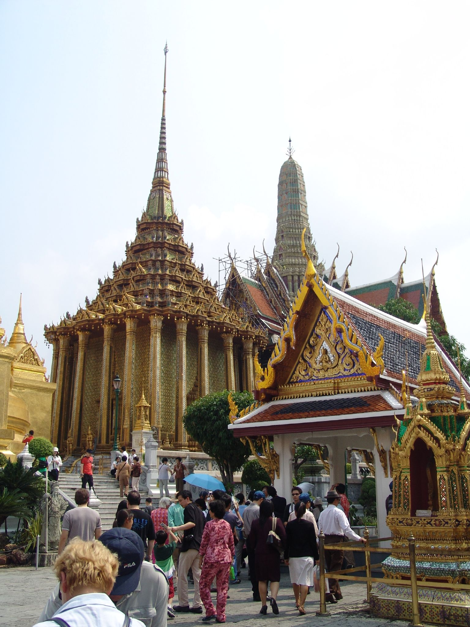 Wat Phra Kaew, Bangkok, Thailand.